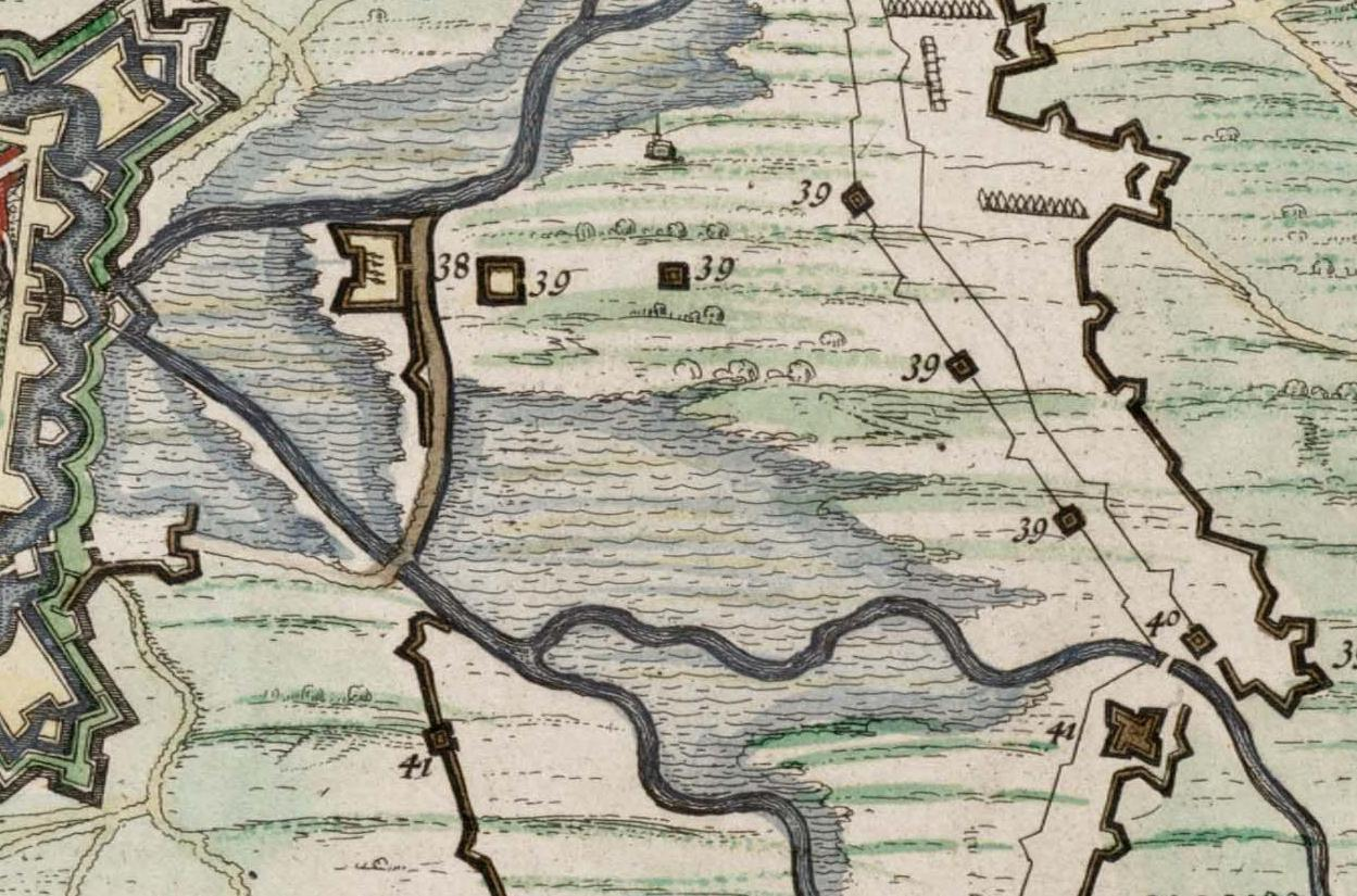 Detail of the map of the Siege of Breda (1624) by Ambrogio Spinola. (Map J.Blaeu, 1649) (file:Siege of Breda 1624 - Obsidio Bredaem per Ambriosium Spinolam (anno 1624).jpg)